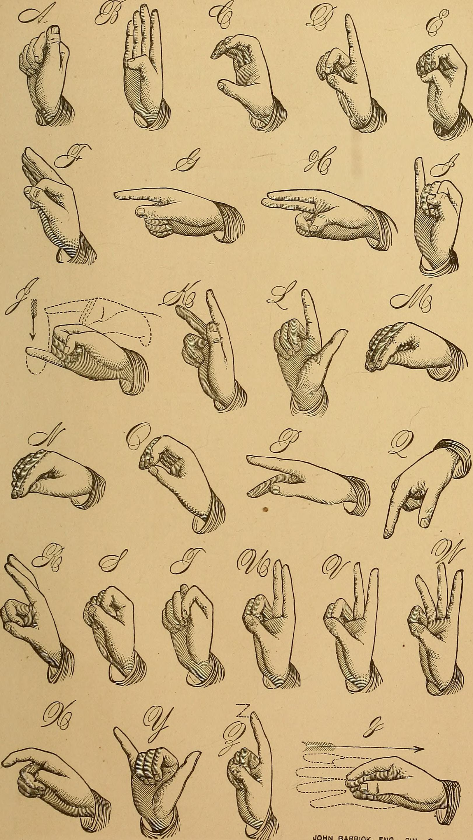 Title: Public documents of the legislature of Connecticut, ... session .. Year: 1861 (1860s) Authors: Connecticut Connecticut. General Assembly Subjects: Administrative agencies Public administration Public records Publisher: Hartford : Printed by order of the General Assembly Text Appearing Before Image: ' Text Appearing After Image: # —^ • —r f§yL sL- %km JOHN BARRICK, ENQ,, CIN,, 0. TIE! IE Sixty-Sixth Annual Report DIRECTORS AND OFFICERS AMERICAN ASYLUM AT HARTFORD, Education and Instruction OF THE deaf and dumb. Presented to the Asylum, May 6, 1882. HARTFORD, CONN.: Press of The Case, Lockwood & Brainard Company. 1882. BOARD OF DIRECTORS. PRESIDENT. Hon. CALVIN DAY. VICE-PRESIDENTS. ROLAND MATHER, PINCKNEY W. ELLSWORTH, NATHANIEL SHIPMAN, JONATHAN B. BUNCE, GEO. M. BARTHOLOMEW, ROWLAND SWIFT, JOHN C. PARSONS, FRANCIS B. COOLEY. DIRECTORS.(By Election.)JOHN C. DAY, SAMUEL N. KELLOGG, WILLIAM M. HUDSON, WILLIAM J. WOOD, FRANK W. CHENEY, DANIEL R. HOWE, EDWARD B. WATKINSON, LUCIUS A. BARBOUR, GEORGE M. WELCH, ATWOOD COLLINS. Ex- Officio. His Excellency, HARRIS M. PLAISTED, Governor of Maine. Hon. JOSEPH O. SMITH, Secretary of State.His Excellency, CHARLES H. BELL, Governor of New Hampshire. Hon. A. B. THOMPSON, Secretary of State.His Excellency, ROSWELL FARNHAM, Governor of Vermont. Hon. GEO. W. NICHOL